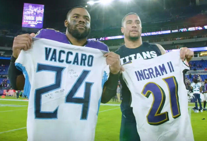 Mark Ingram and Kenny Vaccaro in 2020. Image from video Kenny Vaccaro Mic'd Up vs. Ravens (AFC Divisional Round) | Tennessee Titans, ~ 02:18.